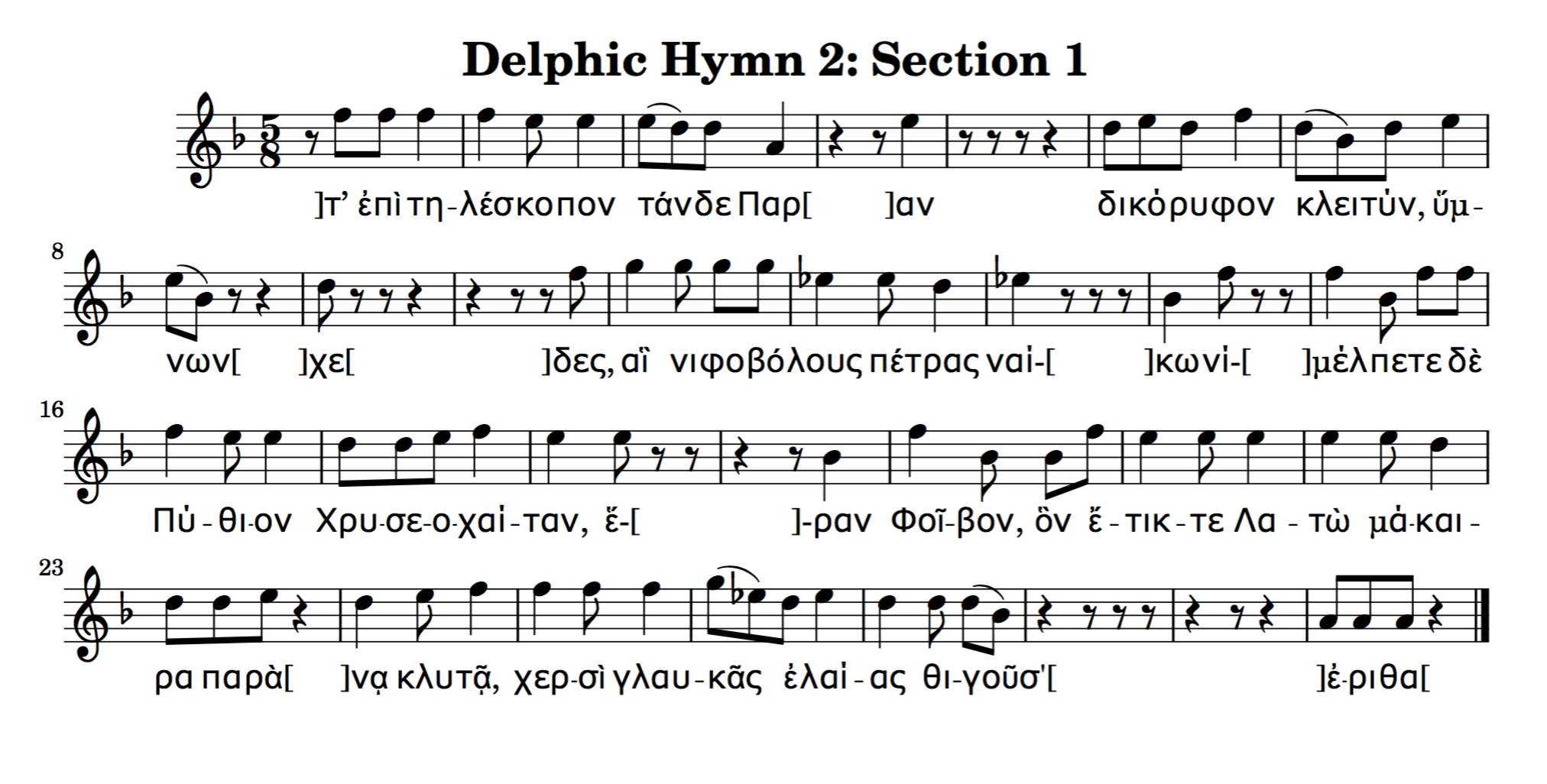 The first section of the 2nd Delphic Hymn (Limenios Paian) transcribed into modern notation.